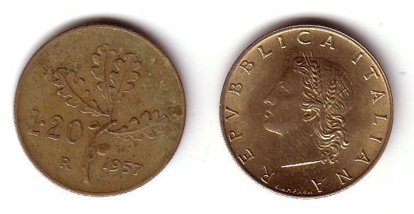 Italian coin lire 20, year 1957.